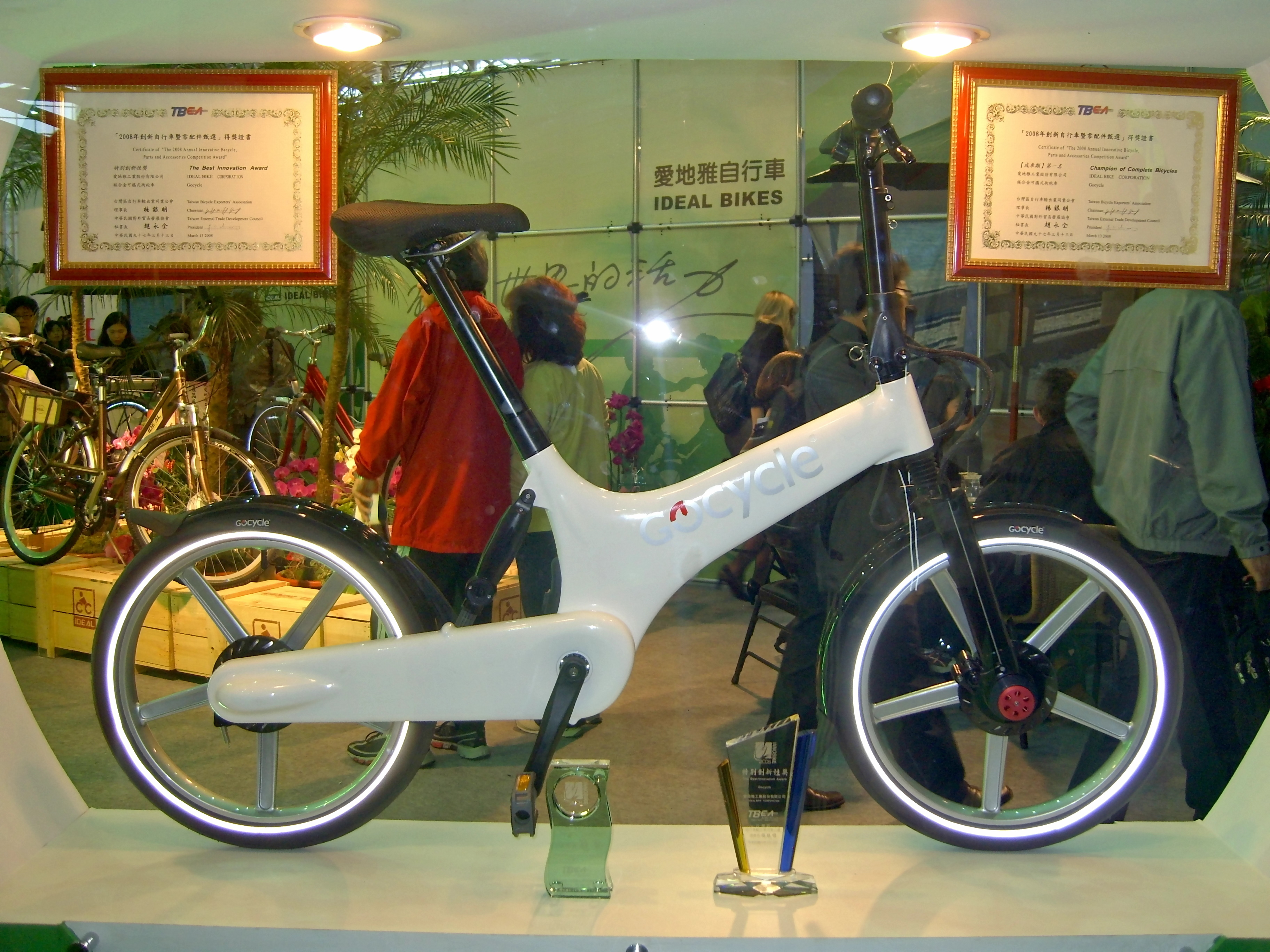 2008 Taipei Cycle: "GoCycle" by Ideal Bikes.